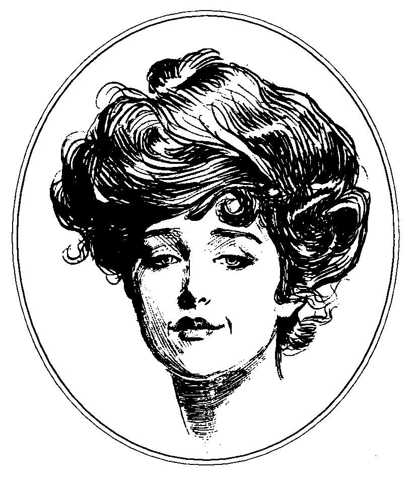 A classic "Gibson Girl" head, which was not intended to portray Irene Adler. Real author is Charles Dana Gibson.